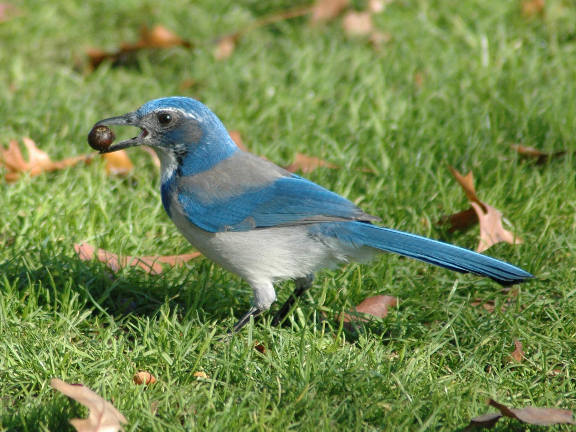 Western Scrub Jay holding an acorn. Picture was taken in November of 2005 at Waterfront Park in Portland, Oregon.